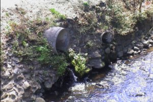 Discharge into Kaikorai Stream near Green Island Rugby Club